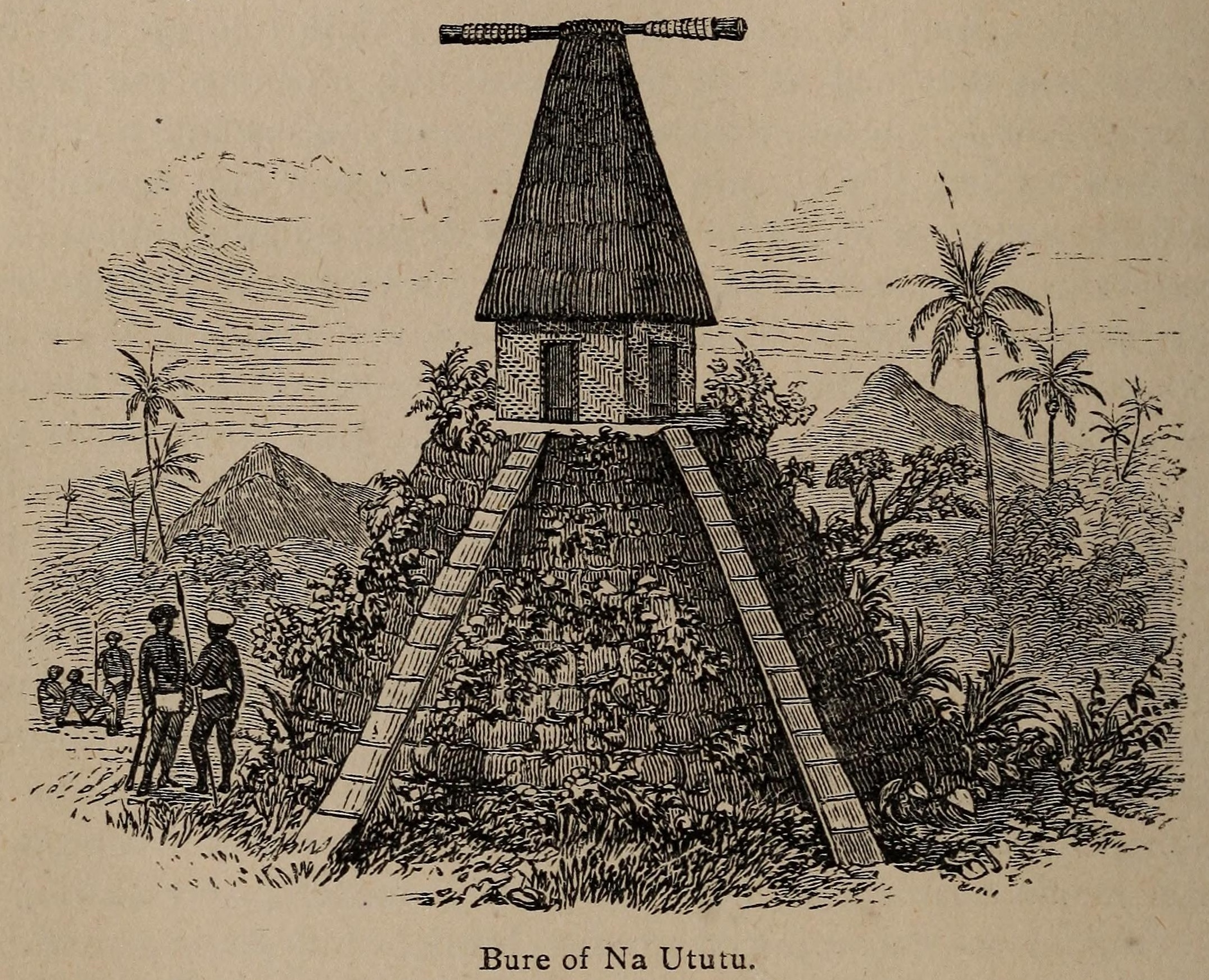 Bure of Na Utuutu.